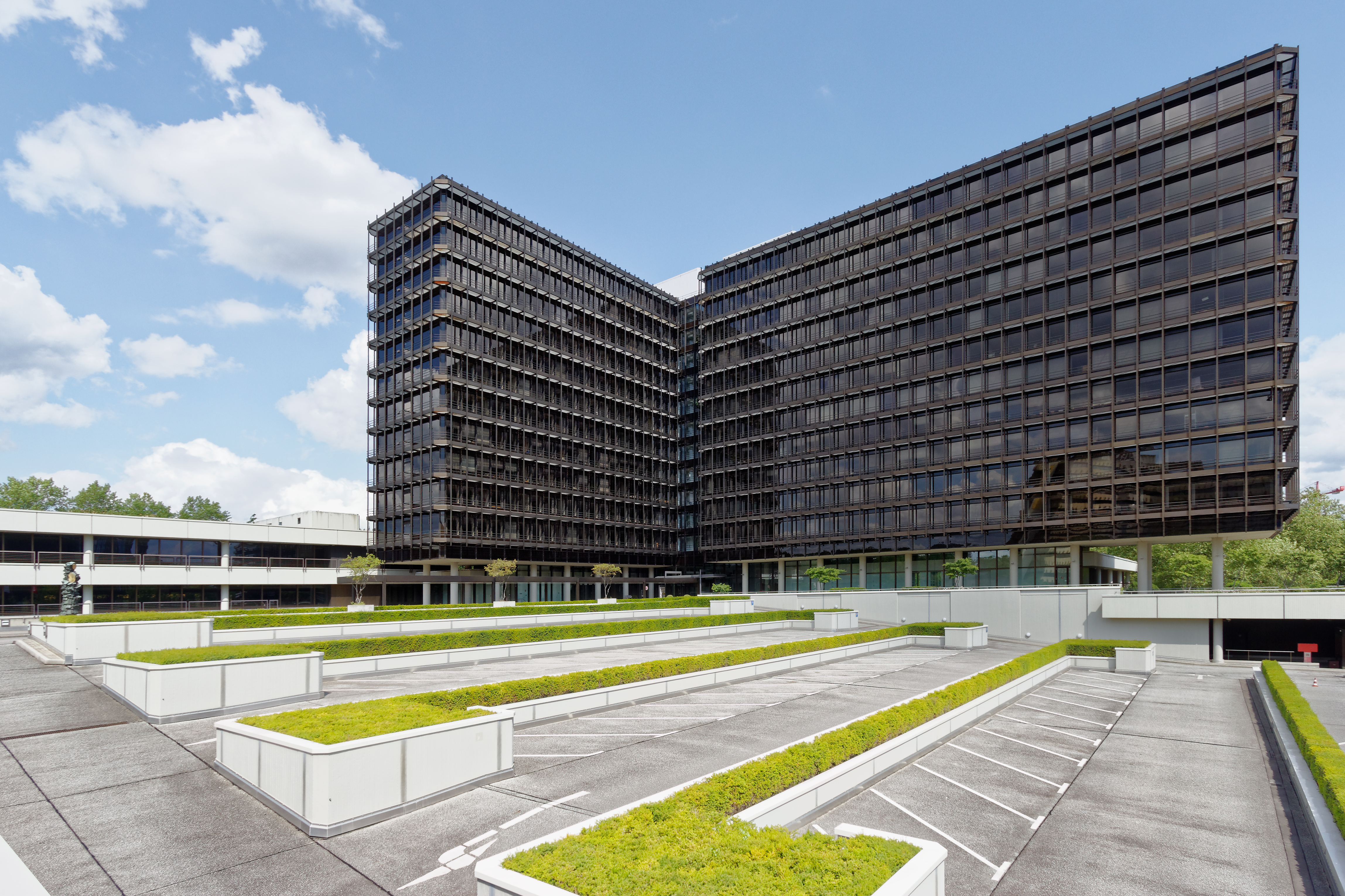 Hamburg-Winterhude, commercial area City Nord, former main office building of the German Royal Dutch Shell (severely straightened)This is a photograph of an architectural monument.